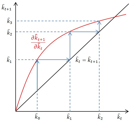 Phase diagram, Overlapping generations model, Cobb–Douglas production function, logarithmic utility